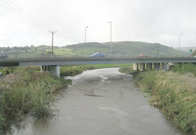 River Aire - Main Road, Kildwick